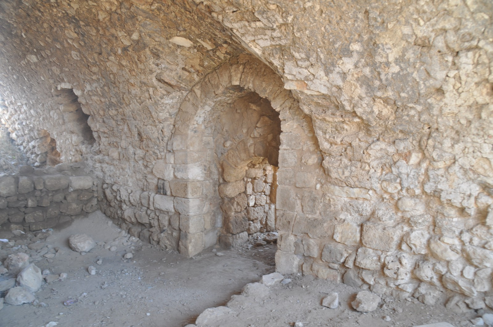 Geography of Israel